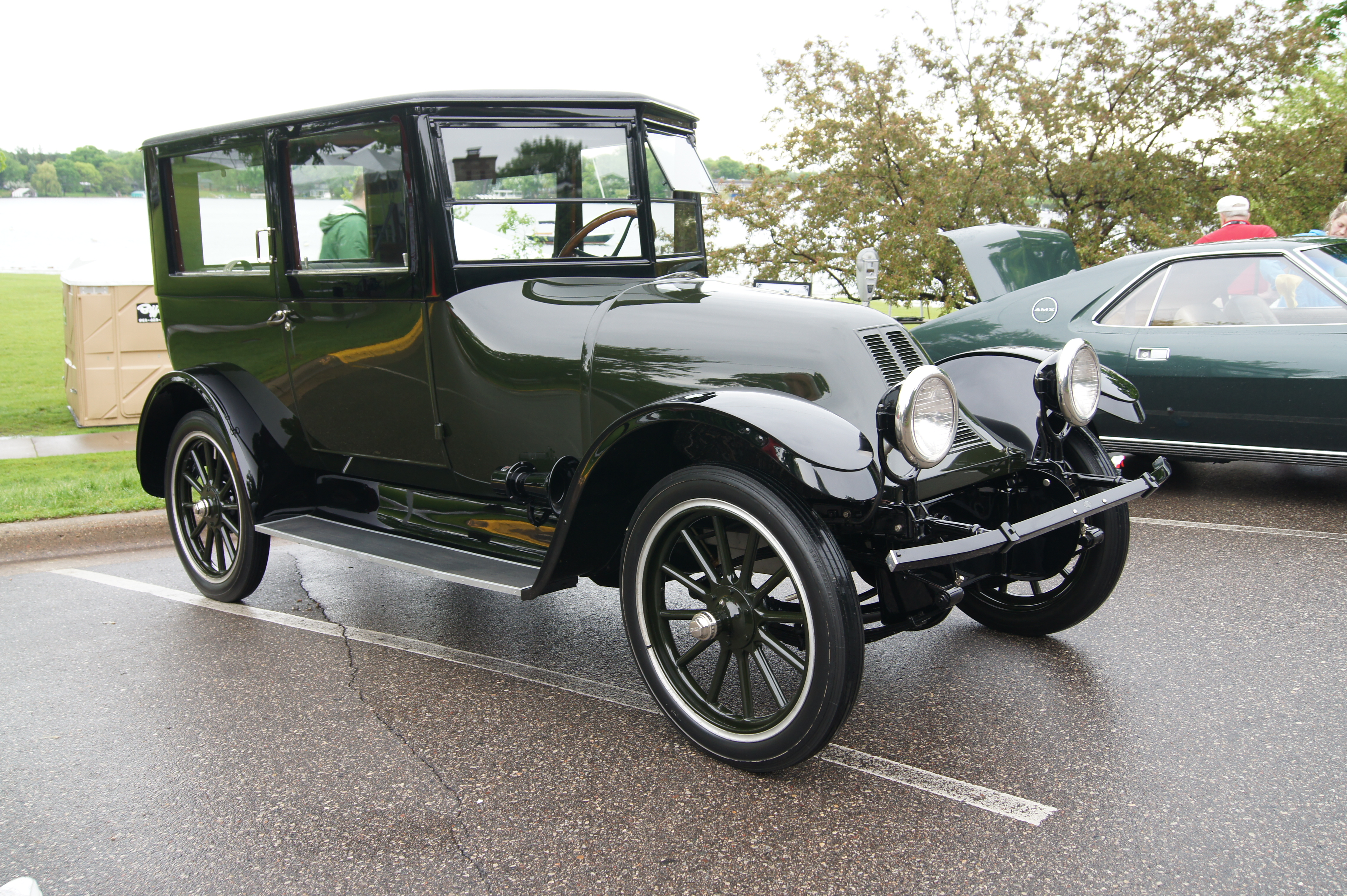 1919 Franklin brougham